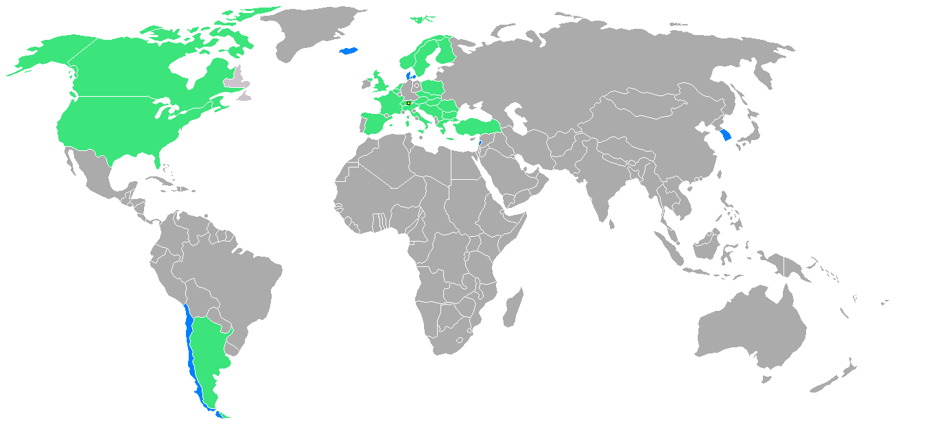 Countries which participated in the 1948 Winter Olympics. Blue = Participating for the first time at Winter Olympics Green = Have previously participated at Winter Olympics Yellow square is host city (St. Moritz).